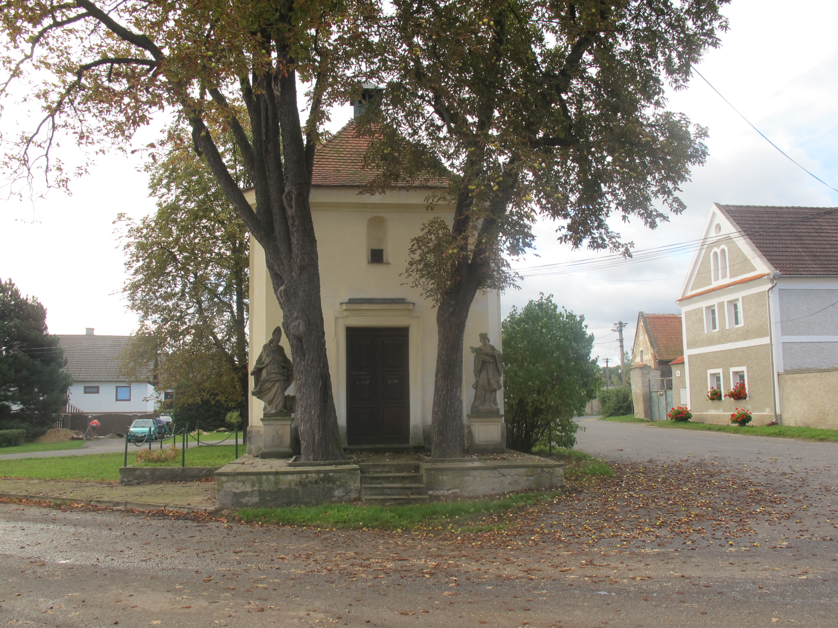 Chapel of Sainte Anne in Strkovice